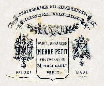 Pierre Petit (1832-1909) - Trademark.